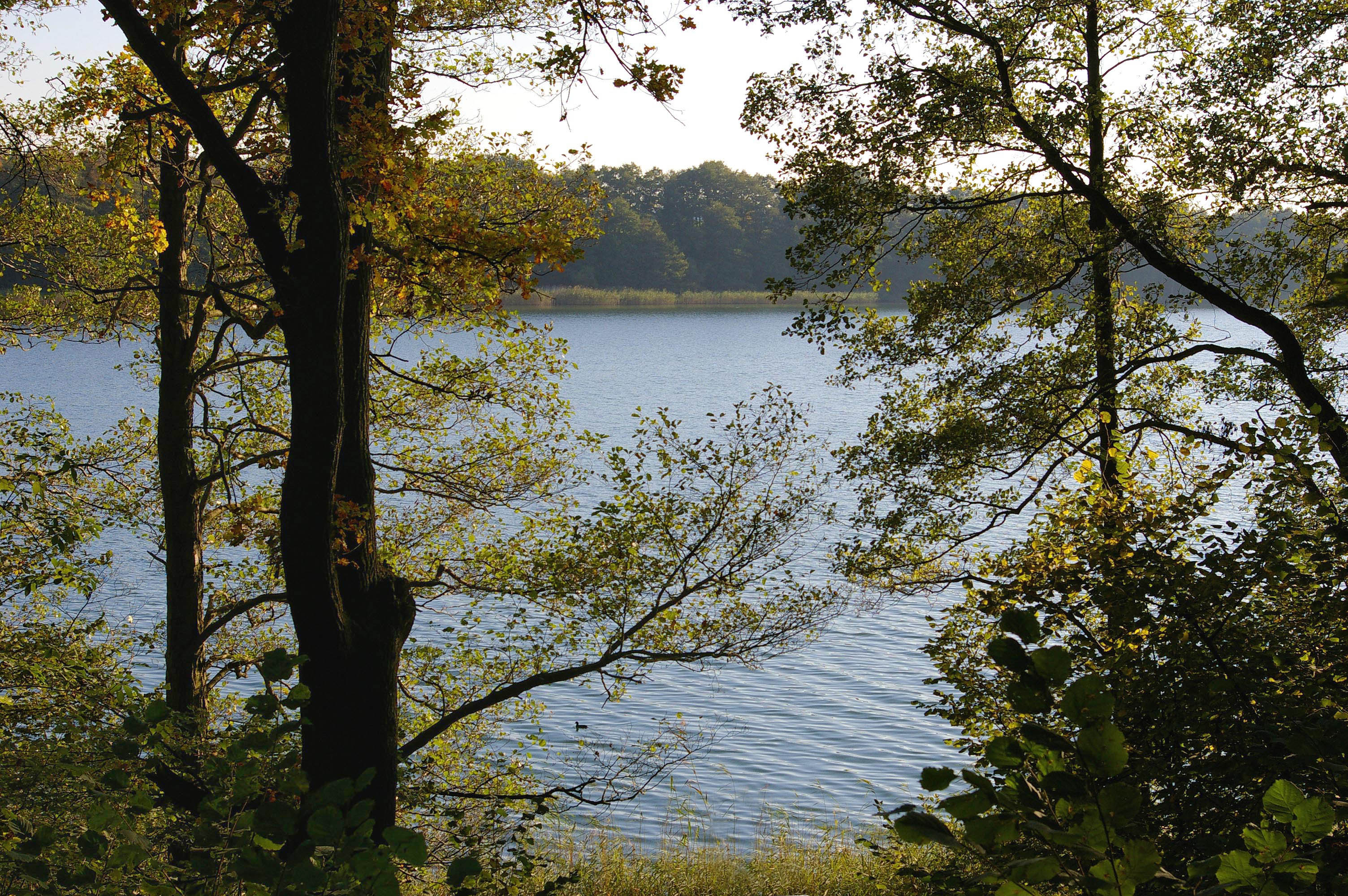 Rudower See ("Lake Rudow") in the northern Germany.